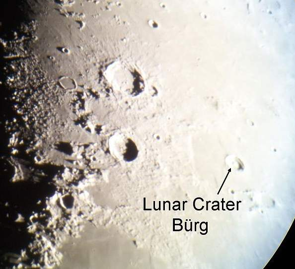 Photo taken by Eric S. Kounce at the McDonald Observatory on October 28, 2006 using the 36-inch Telescope